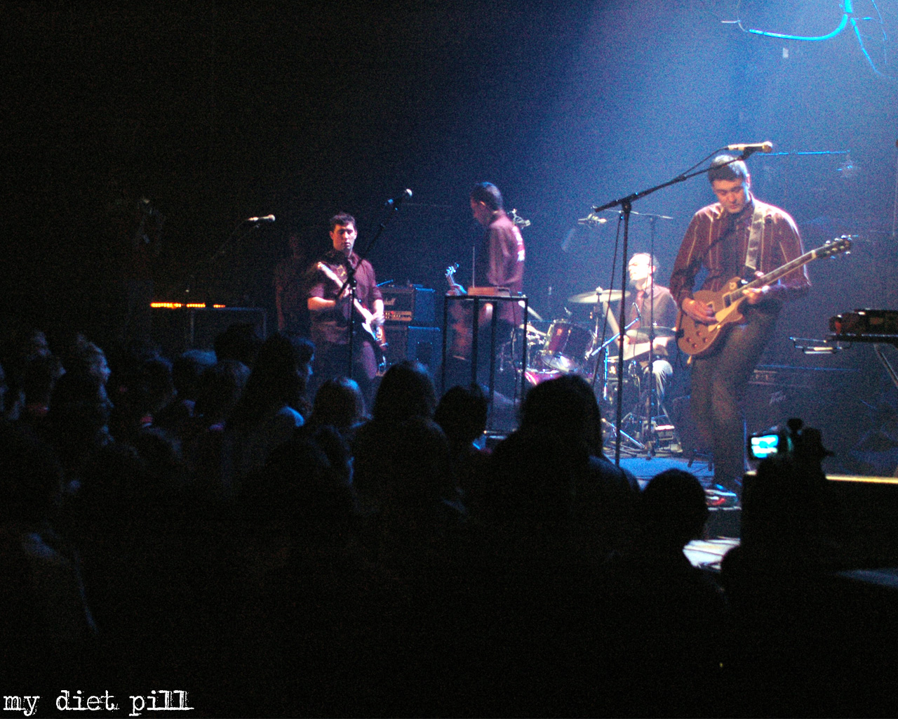 My Diet Pill in concert in Nice, France. At "Théatre Lino Ventura".